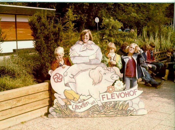 Flevohof, Dutch amusementpark